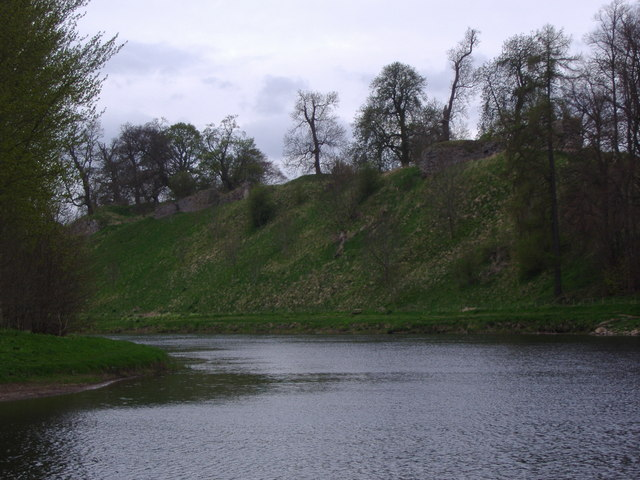 Roxburgh Castle overlooking the River Teviot This castle was held by the English in 1460, and whilst attempting to retake it, a cannon blew up in James II's face and killed him.